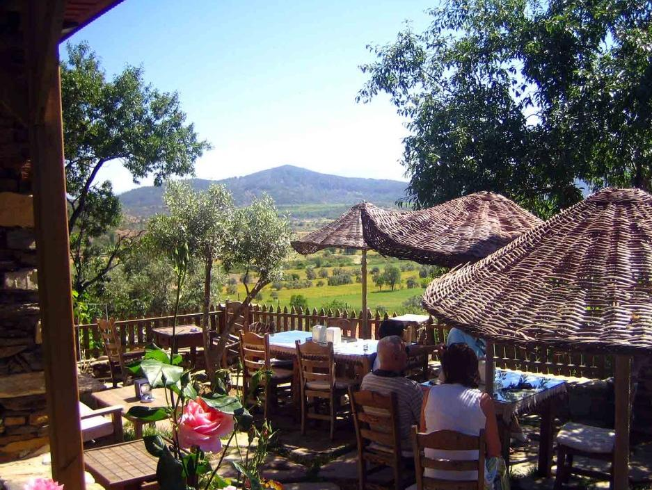 Belen Coffee House (Belen Kahvesi) in Çaybükü village, Muğla, Turkey